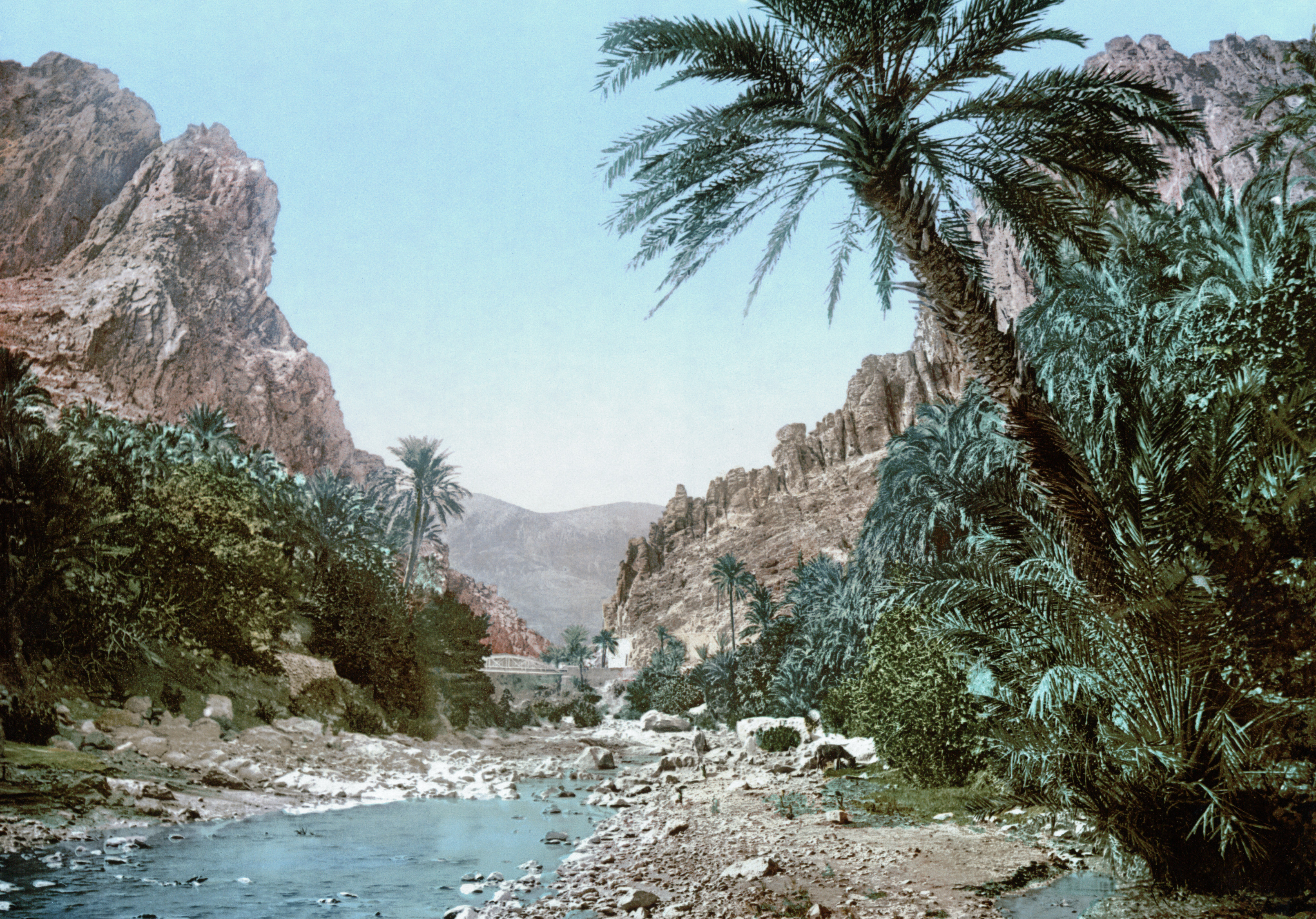 Stream in the Gorge of El Cantara (Algeria, 1899).